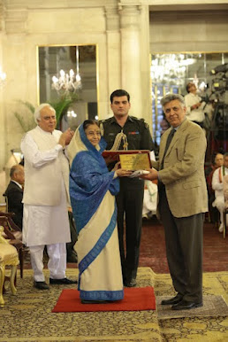 Recipient of Padmabhushan Dr. Moturi Satyanarayan Award